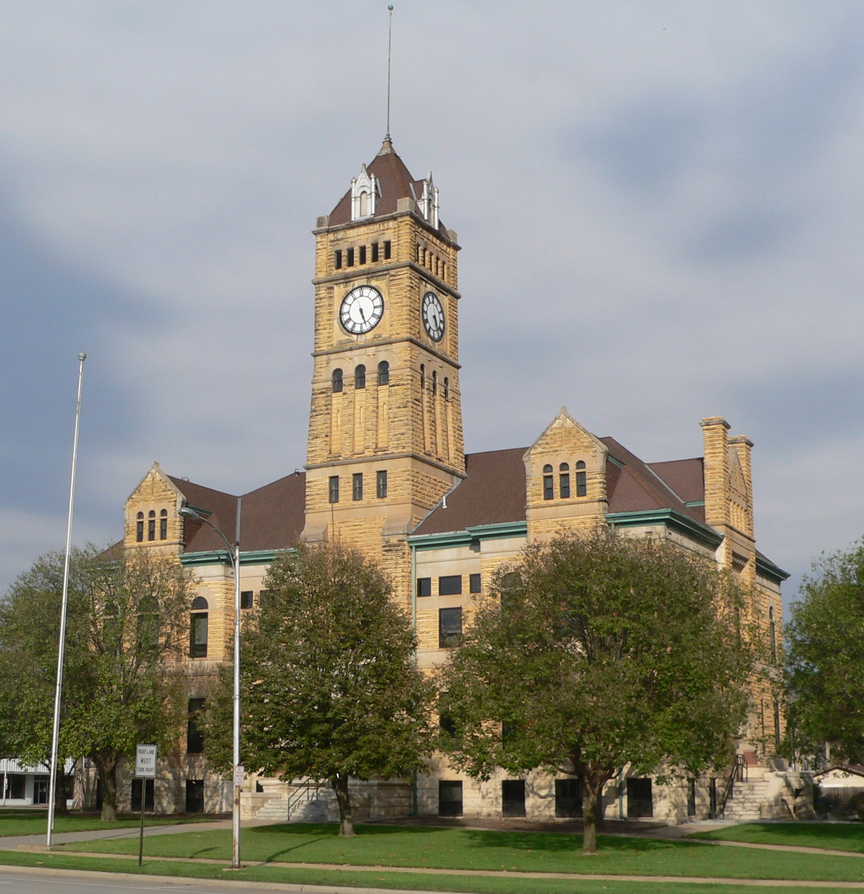 Mitchell County courthouse in Beloit, Kansas; seen from the southwest.